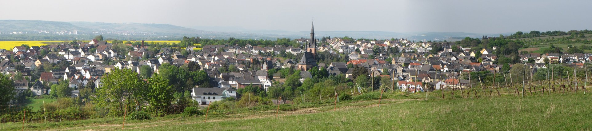 Kiedrich